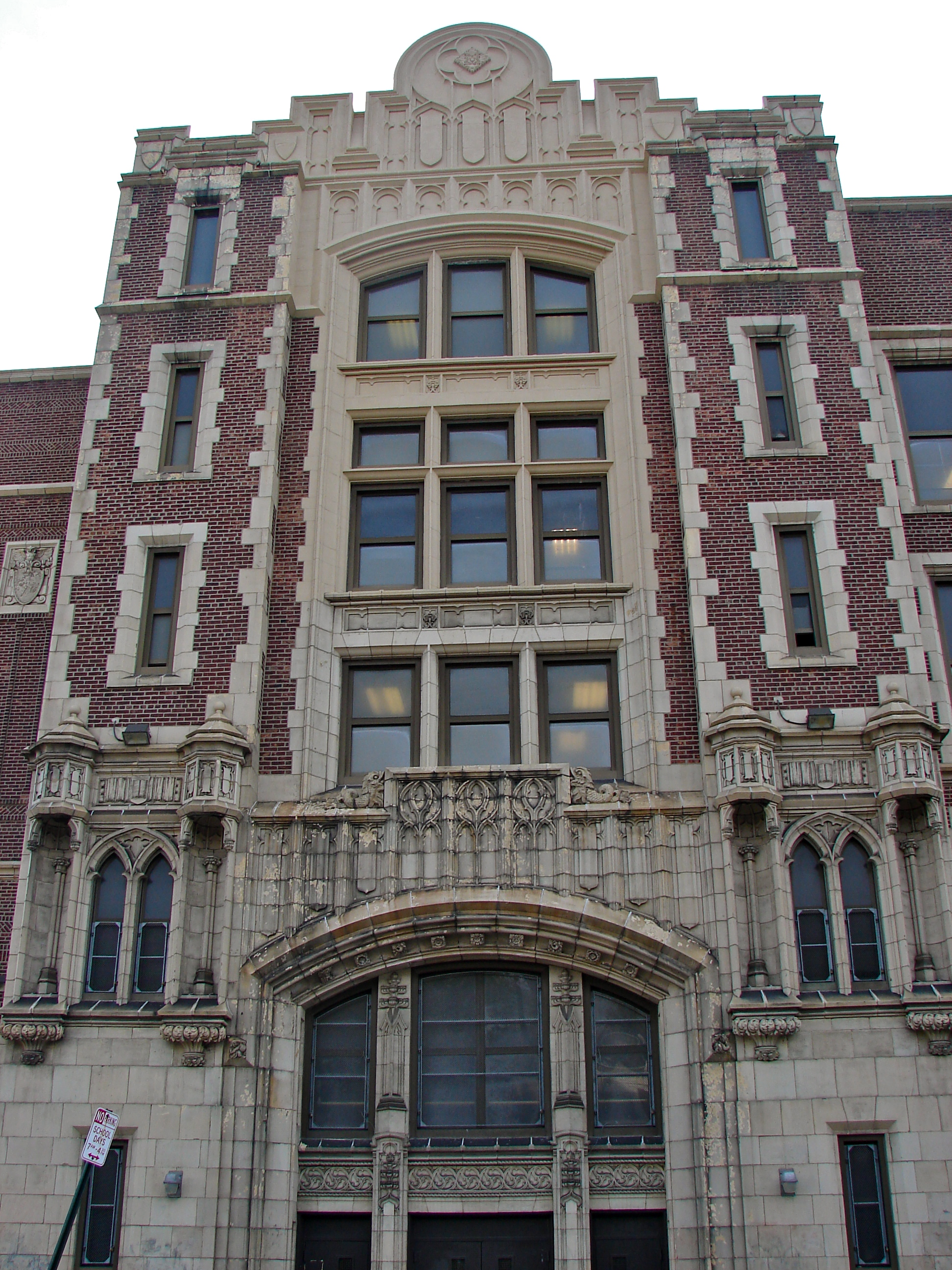 John L. Kinsey School in Philadelphia on the NRHP since December 4, 1986. At 6501 Limekiln Pike in the West Oak Lane neighborhood of North Philly.